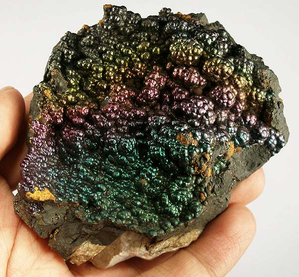 Goethite Locality: Coon Creek Mine (York Mine), Shady, Polk County, Arkansas, USA (Locality at ) Size: 8.5 x 7.5 x 3.0 cm. An amazing Arkansas goethite specimen from the Coon Creek Mine. This beautifully iridescent and colorful goethite has botryoidal goethite in parallel bands of black, yellow-green, pink, purple and blue-green. The goethite is on novaculite. Ex. A.L. Kidwell Collection and a note on his label has a 1976 date.